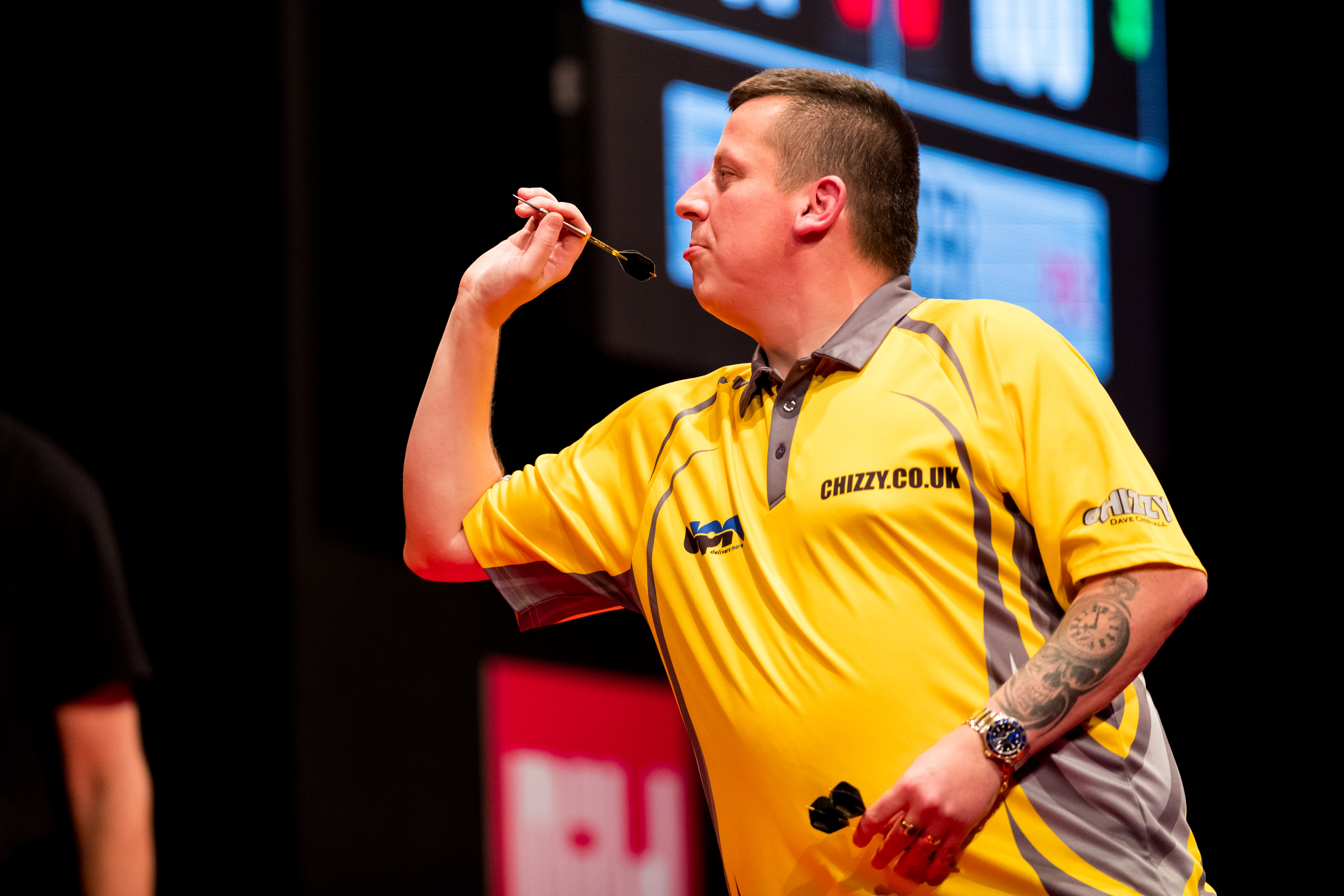 Michael van Gerwen 7:1 Dave Chisnall during PDC Europe Darts Matchplay at Maimarkthalle, Mannheim, Baden-Württemberg, Germany on 2019-09-08, Photo: Sven Mandel